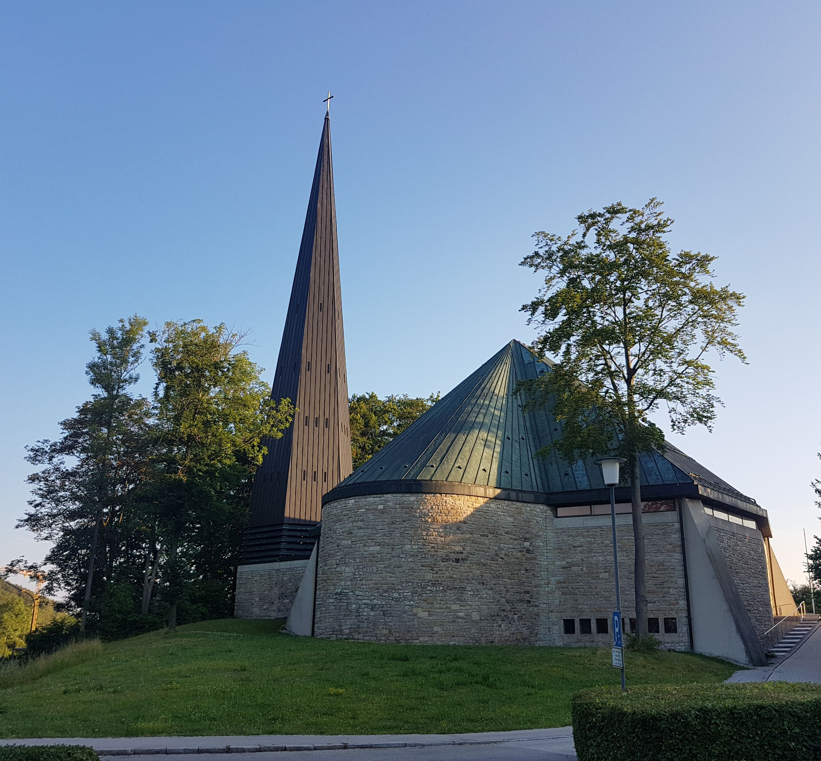 Catholic parish church for the Holy Supper in Steinebach, Wörthsee, Bavaria, Germany. Built from 1960 to 1964.